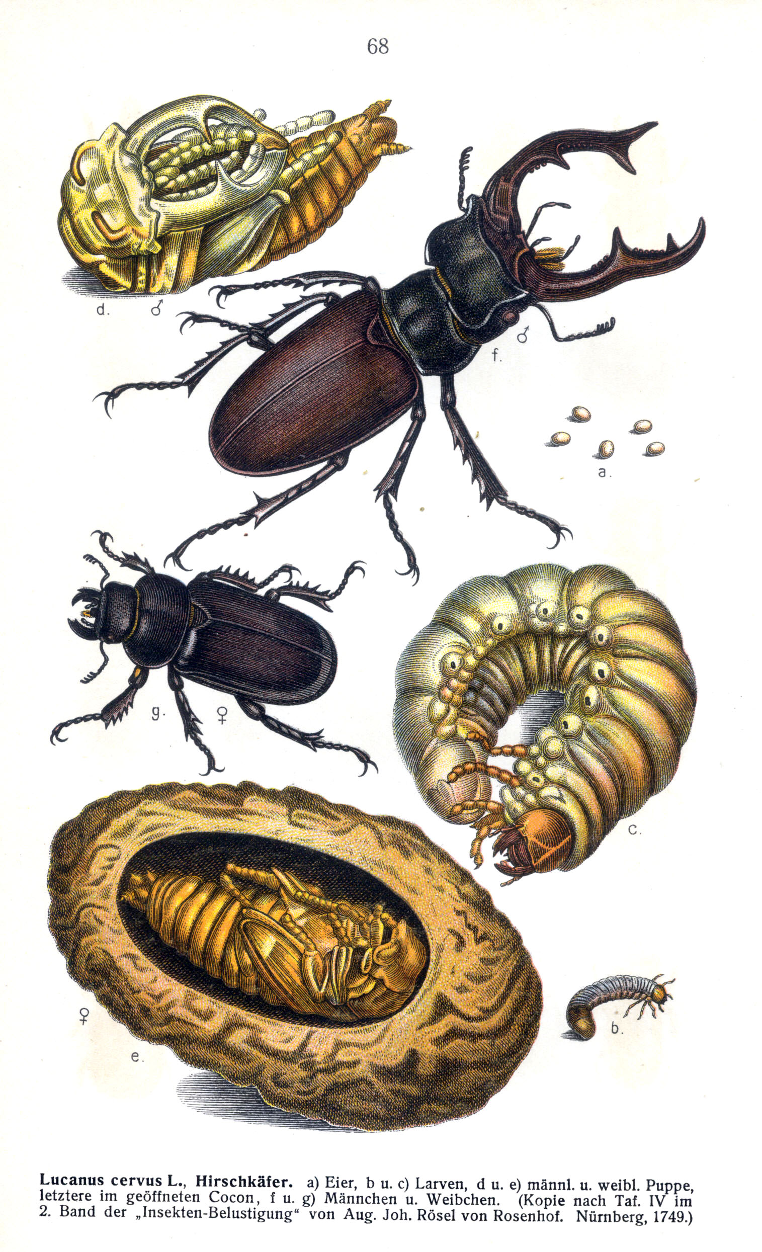 Lucanus cervus L. = Lucanus cervus (Linnaeus, 1758) (a: eggs, b: hatchling larva, c: larva before pupation, d: male pupa, e: female pupa in earth hollow, f: adult male, dorsolateral view, g: adult female, dorsolateral view)